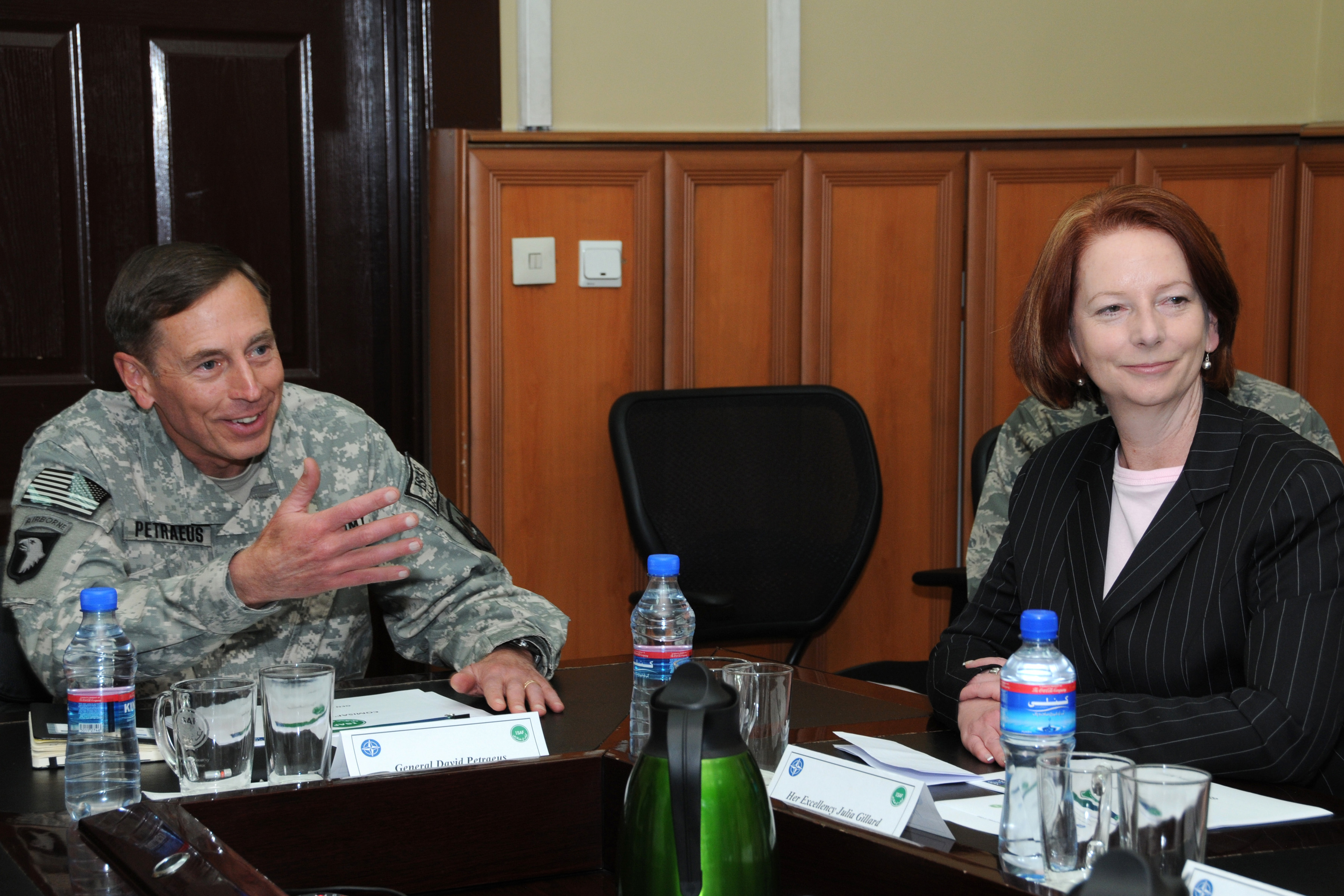 Gen. David H. Petraeus introduces Australian Prime Minister Julia Gillard to members of his staff during an Oct. 2 meeting at International Security Assistance Force headquarters that also included Australia's Chief of Defence Gen. Angus Houston and Ambassador to Afghanistan Paul Foley. Petraeus, commander of NATO and ISAF troops, briefed the prime minister on the progress of operations here. He also praised the performance of Australia's military serving alongside U.S. and other allied nations, telling Prime Minister Gillard she can be proud of her troops. Gillard is on her first overseas trip since being sworn in as Australia's first female prime minister in June. (Photo by U.S. Army Staff Sgt. Lorie Jewell) (Released)